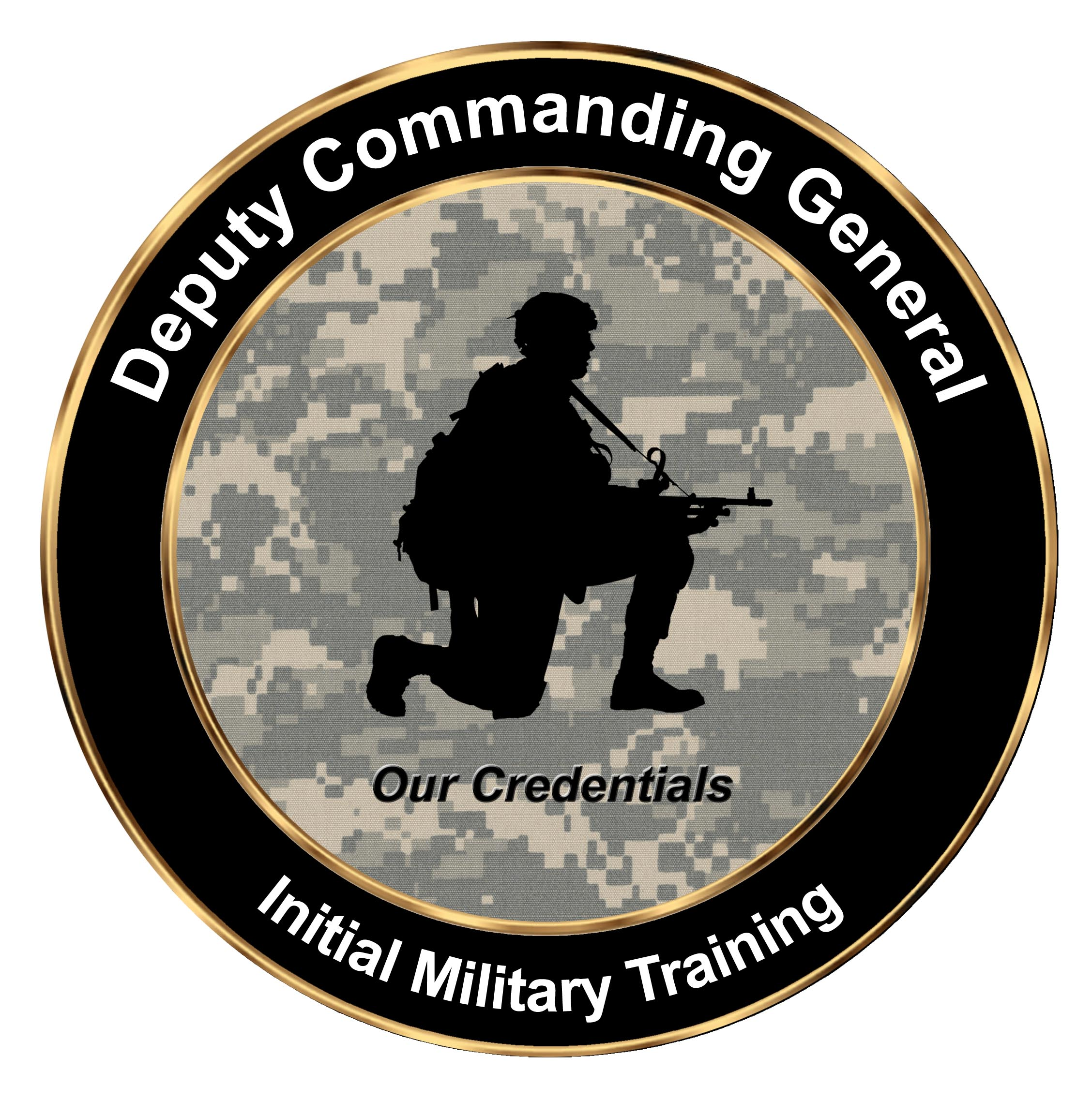 Initial Military Training Logo